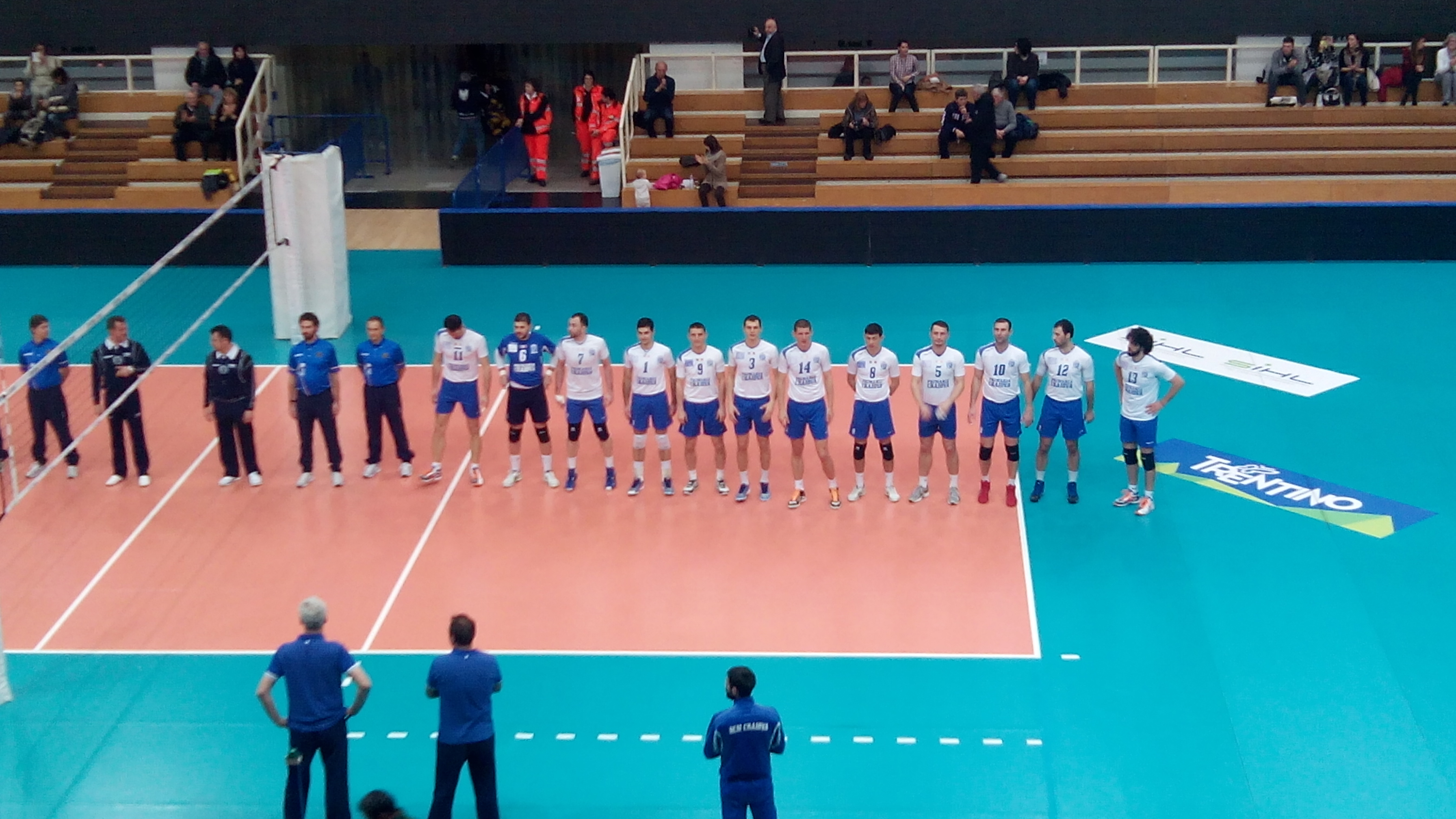 SCM U Craiova, romanian masculin volleyball team, here at 2015 in PalaTrento (Italy)